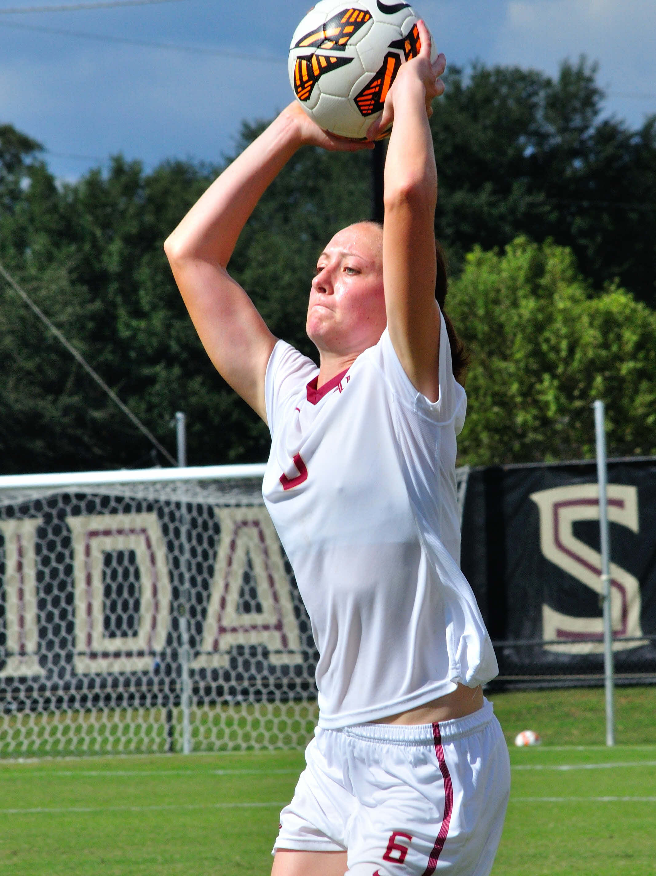 FSU vs Virginia Tech October 12, 2014 Tallahassee, FL